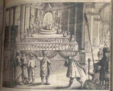 A Dutch account of Sir Thomas Roe's travel to Jahangir's court, published in 1656 Source: ebay, June 2004 "An extremely rare work on the East Indies. Provenance belonging to a German Archive. A very handsome & unusual biding (20th century?), new endpapers. This is the entry of the British Library. Only one copy in the UK. One in the KB in the Netherlands (See British Libray entry below). Roe, Sir Thomas. Title Details: Journael van de reysen ghedaen door ... Sr T. Roe ... afgevaerdicht naer Oostindien aen den Grooten Mogol ... Uyt het Engels vertaalt, ende met copere figuren verciert. Publisher: Amsterdam : Iacob Benjamin, 1656 4o. Physical desc.: pp. 126."